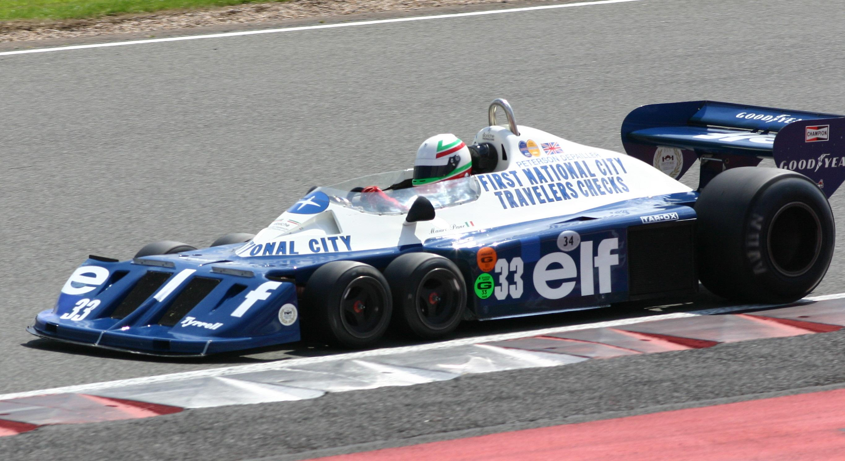 The Tyrrell P34 at the 2008 Silverstone Classic race meeting.